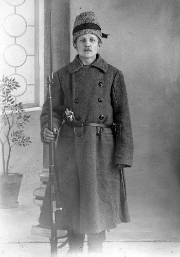 Finnish civil war reds